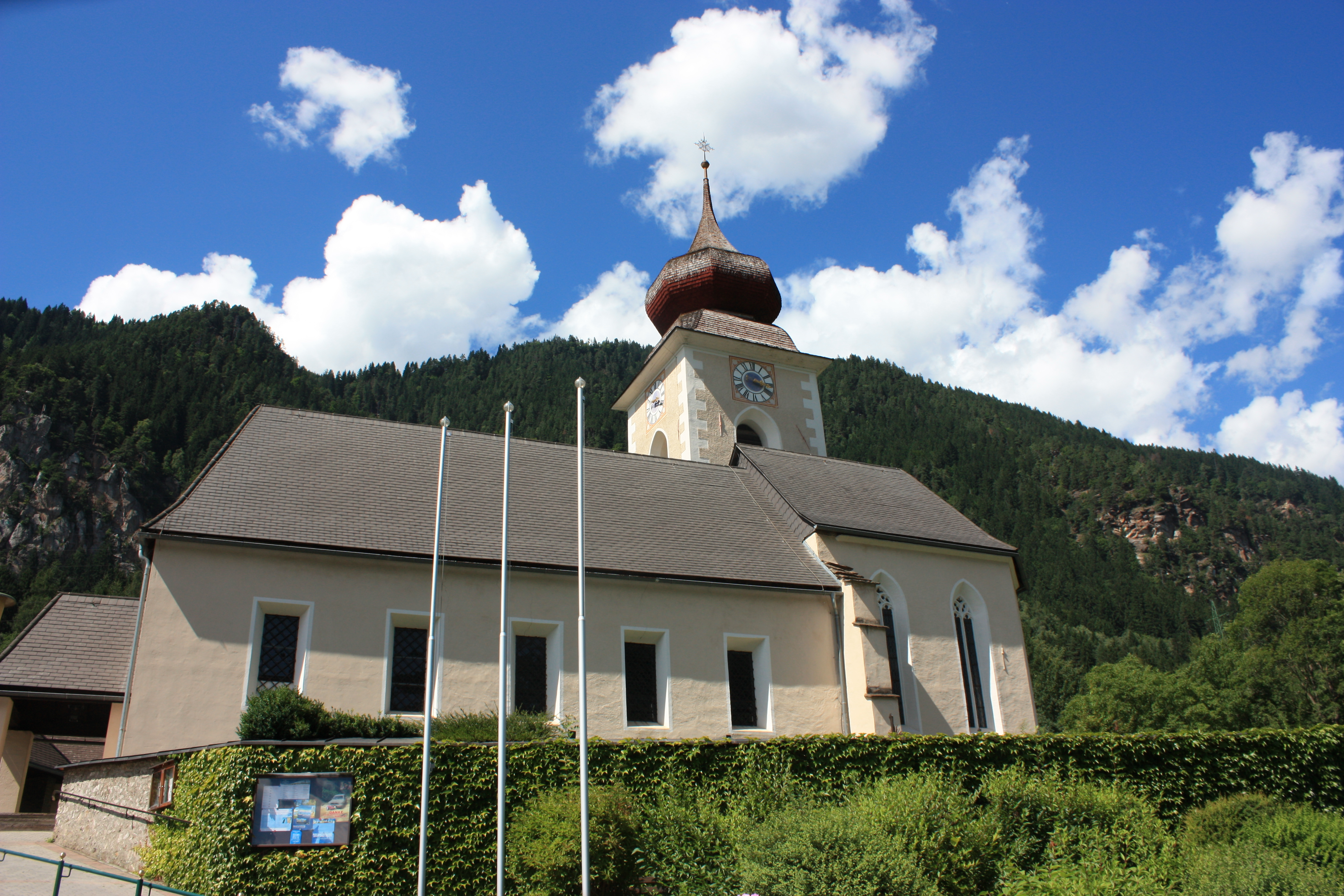 Saint Giles parish church in Döbriach, municipality: Radenthein